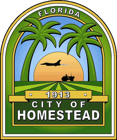 Seal of Homestead, Florida